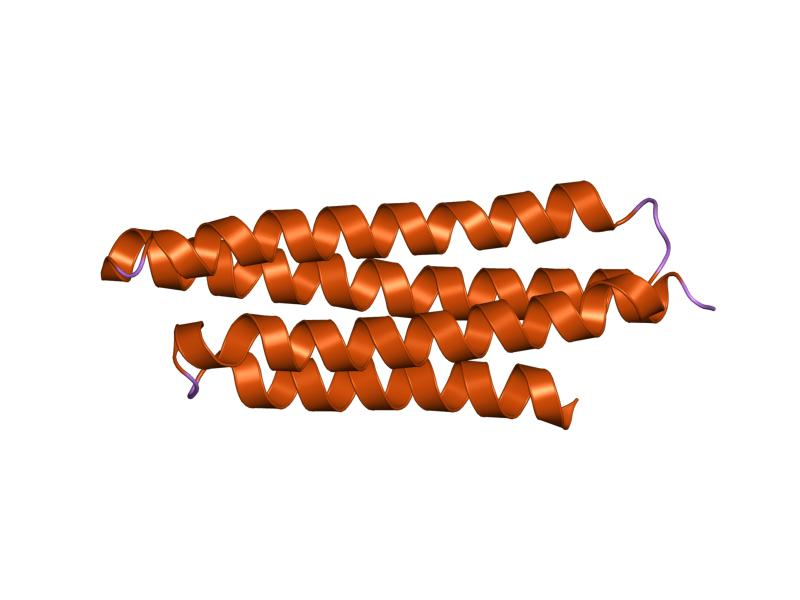 Cartoon representation of the molecular structure of protein registered with 1k40 code.